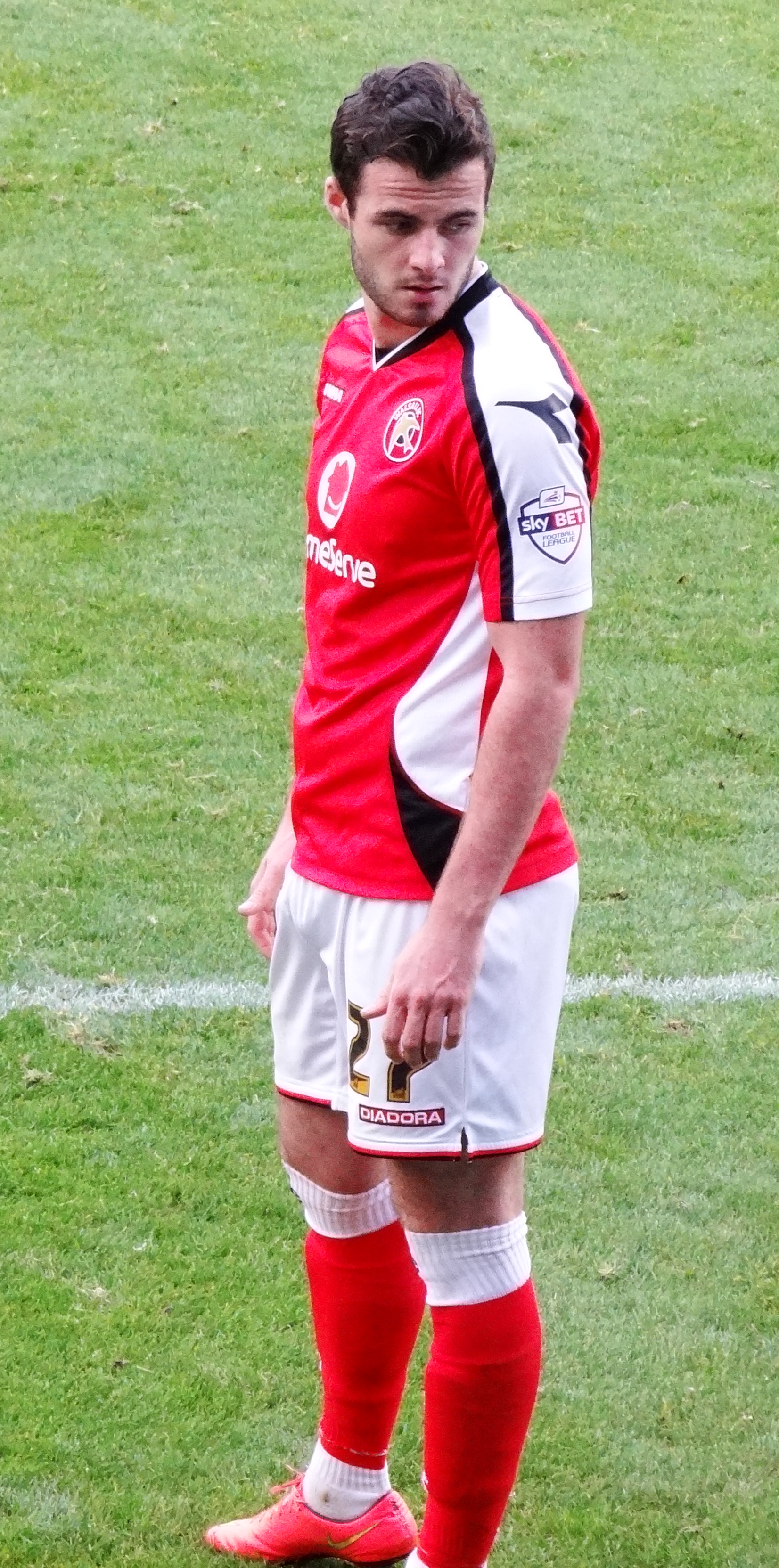 Anthony Forde playing for Walsall FC in a League One match against Chesterfield on 25 October 2014.